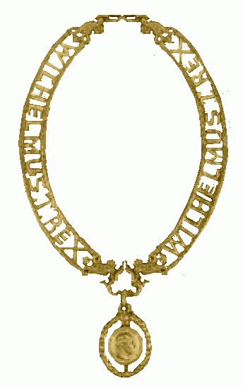 Collar of the Order of William, Prussia 1896- 1918